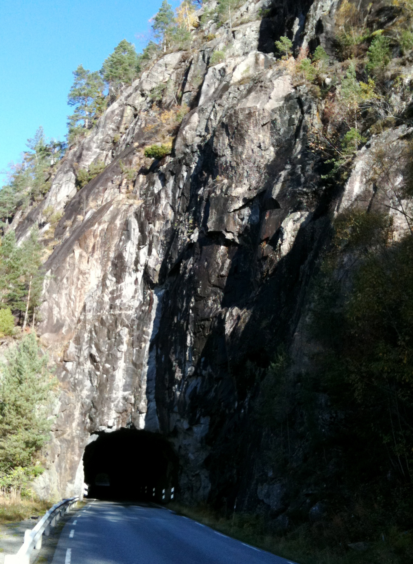 Velaskartunnelen in the municipality of Suldal in Rogaland, Norway